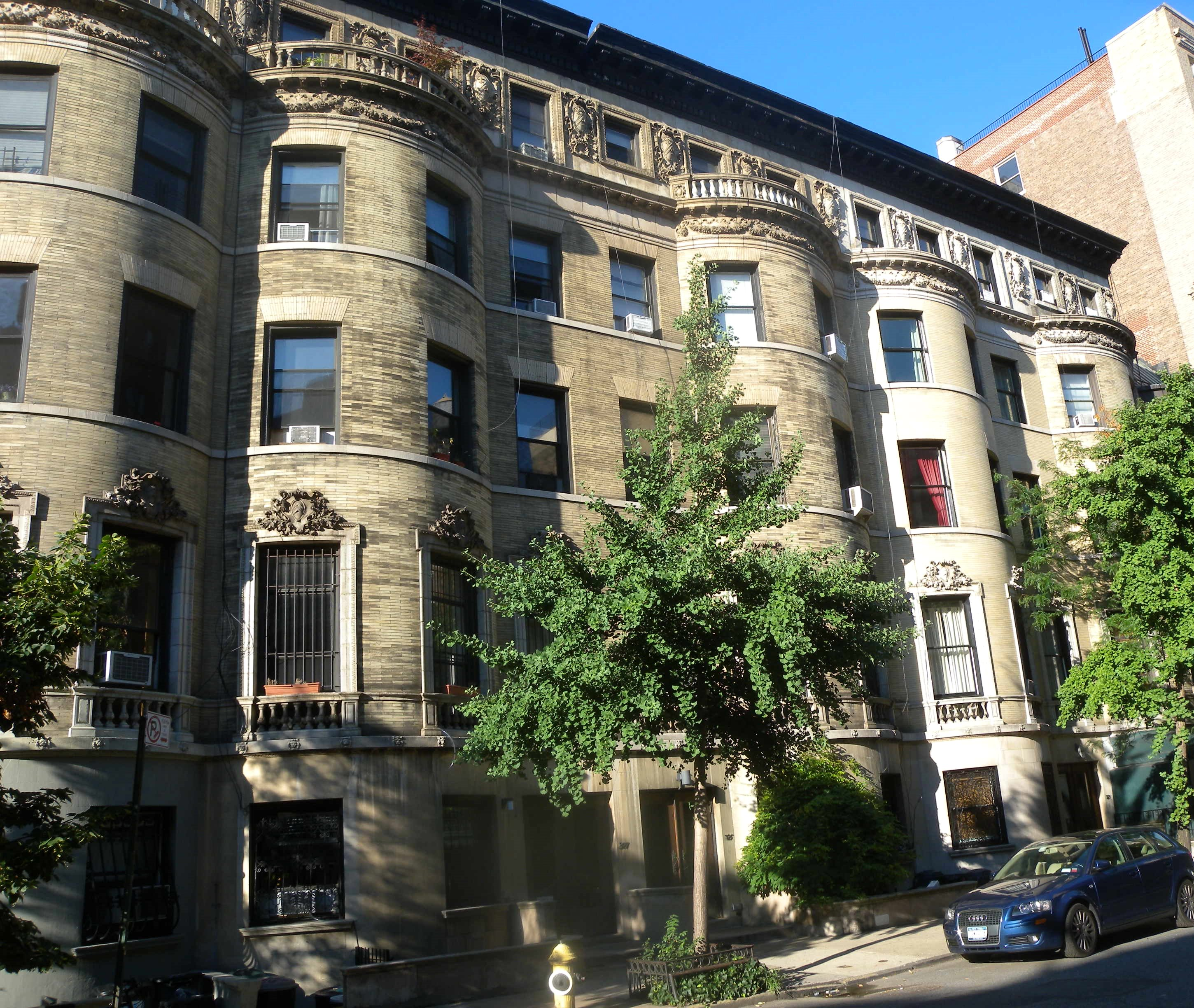 Looking northeast at row houses on West 89th Street on a sunny late afternoon.